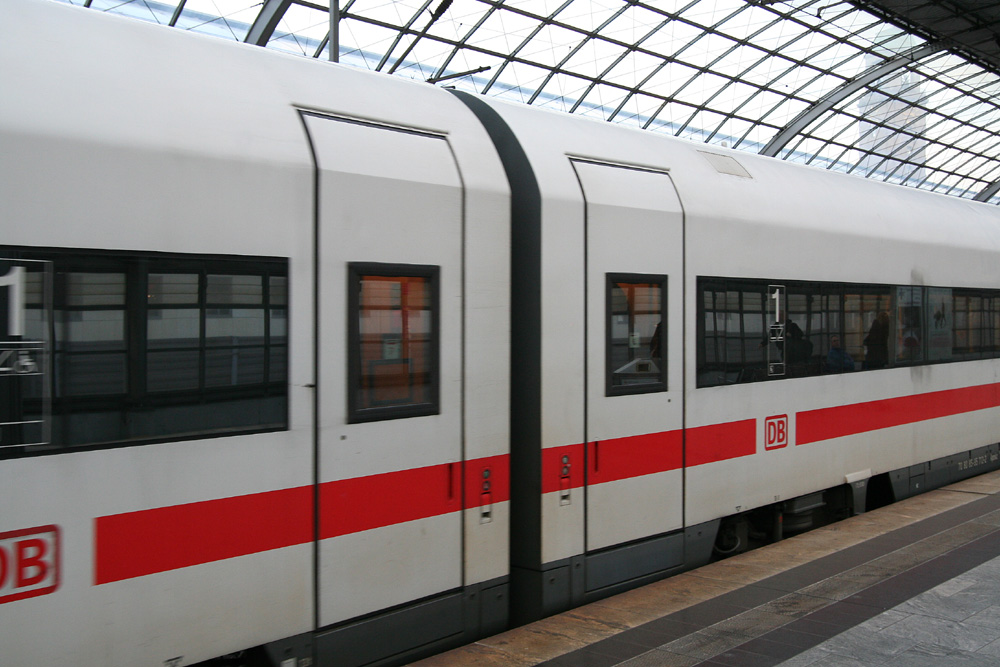 Metropolitan railcars leaving Berlin-Spandau.